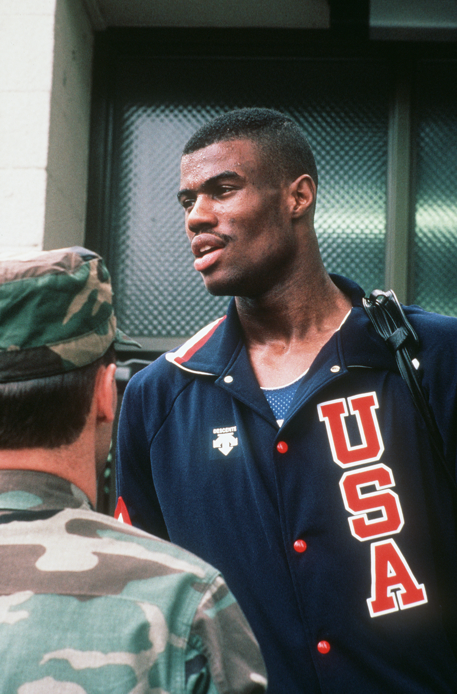 David Robinson of the US Olympic men's basketball team leaves the arena after a preliminary round win against the Brazilian team during the XXIV Olympic Games